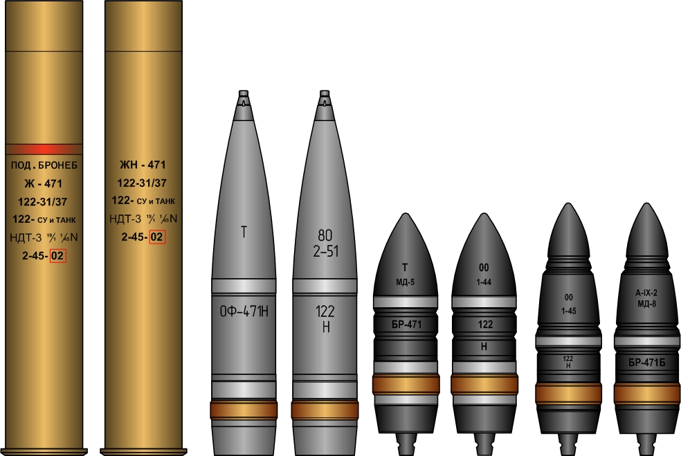 External view of ammunition for 122 mm tank gun D25-T and for 122 mm tow and self-propelled gun A-19. All items are shown from two sides. Left - right : cartridge high-explosive/fragmentation shell PF-471 armor-piercing tracer shell BR-471 armor-piercing capped shell BR-471B.